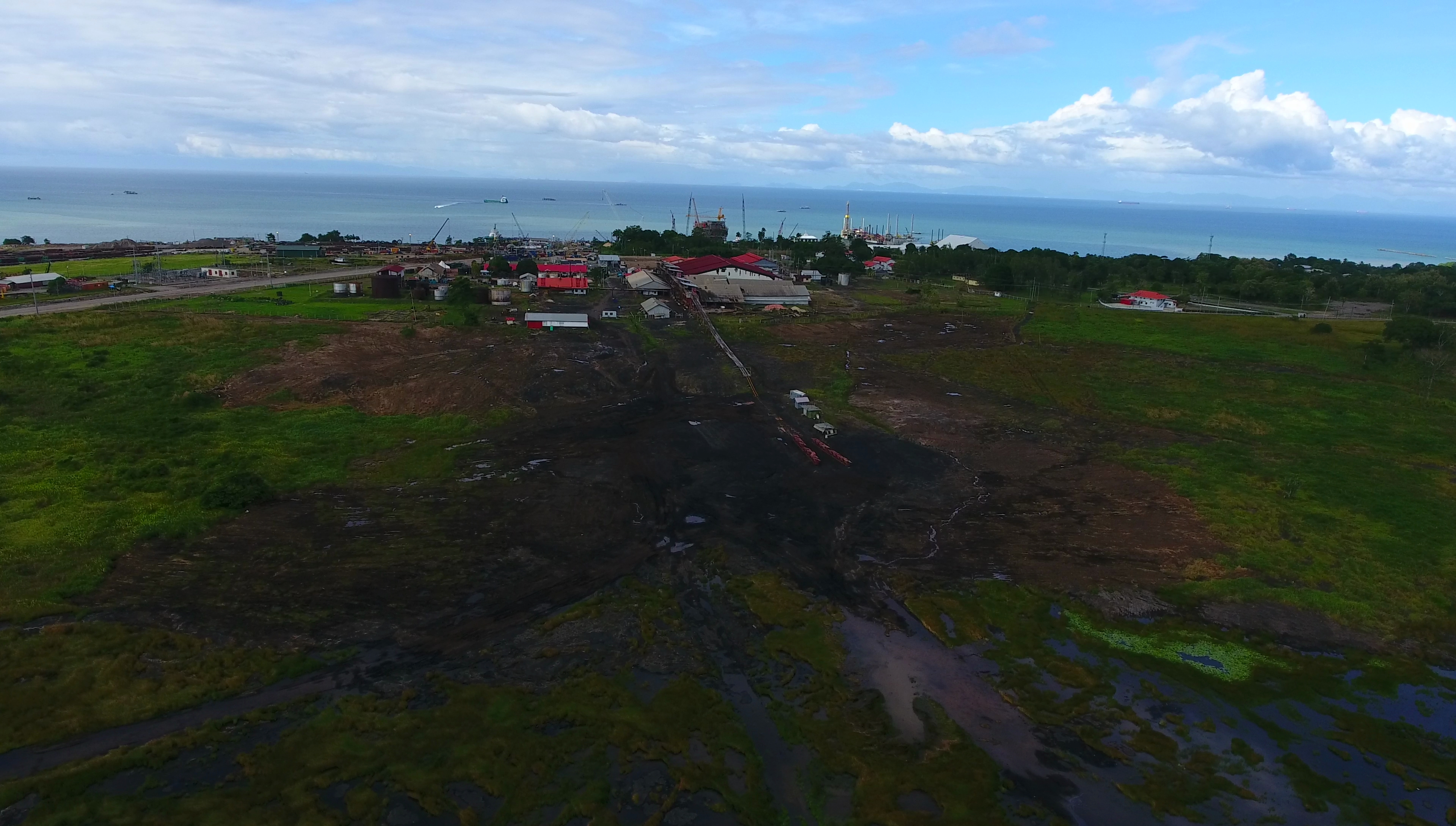 Facilities of La Brea Lake Asphalt of Trinidad and Tobago (1978), La Brea, Siparia, Trinidad and Tobago. Photo taken as part of the Southern Trinidad Aerial Photo Project, a small project sponsored by WMDE. Drone used: DJI Phantom 4. Snapshot taken from video footage via VLC.